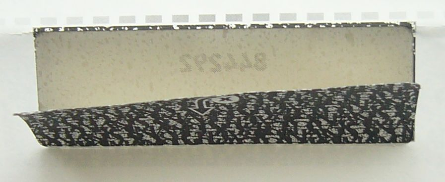 Personal identification number shown in a letter